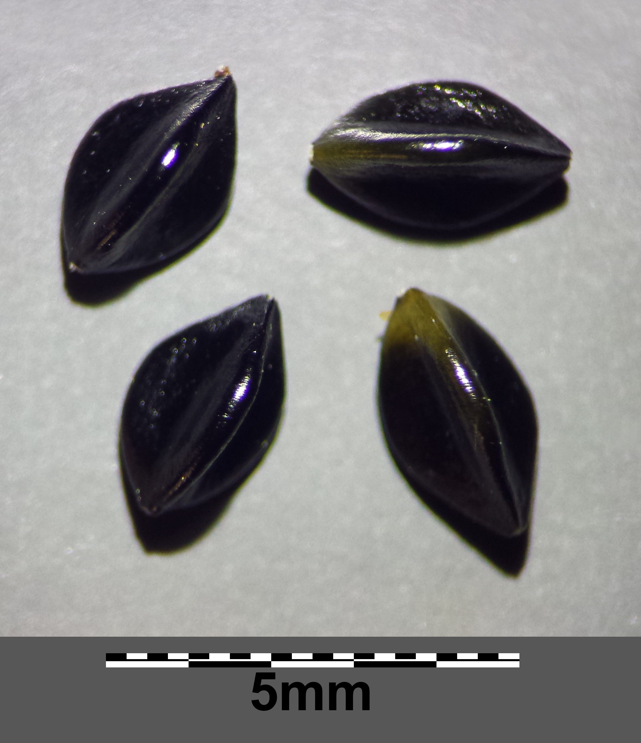 Fruits Taxonym: Fallopia dumetorum ss Fischer et al. EfÖLS 2008 ISBN 978-3-85474-187-9 Location: near Oberrohrbach, district Korneuburg, Lower Austria - ca. 200 m a.s.l. Habitat: shrubbery